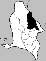 Location of Brandoa parish in Amadora municipality. Map created by Brian Boru in December 2005.